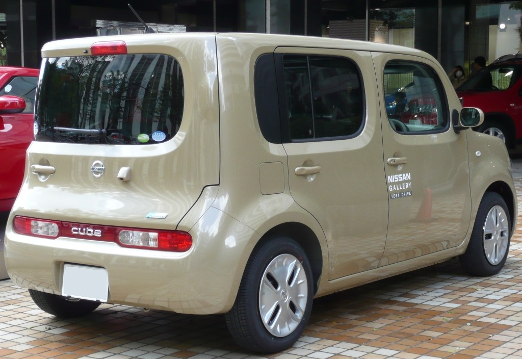 Nissan Cube.